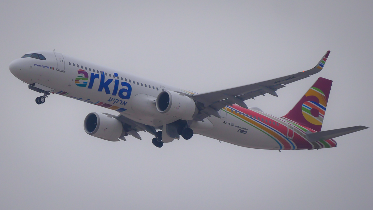 arkia new a321neo LR